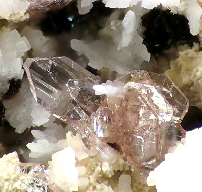 Allactite Locality: Moss mine, Nordmark, Filipstad, Värmland, Sweden Picture width 3 mm. Collection and photograph Christian Rewitzer